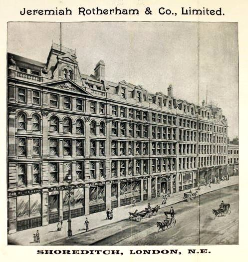 Image of departmental store Jeremiah Rotherham, Shoreditch High Street c1904